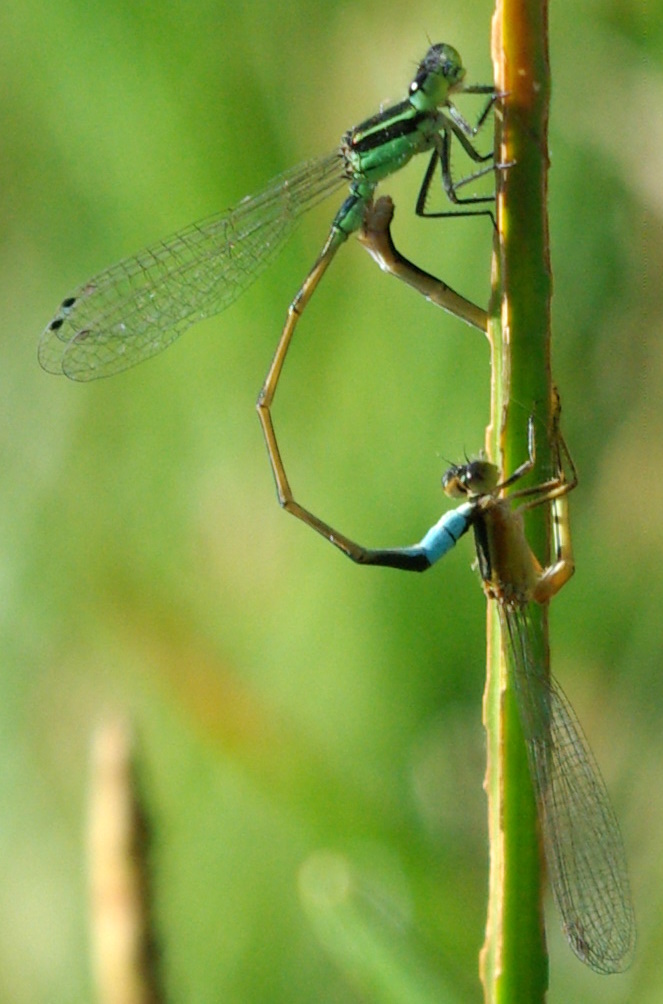 Mating pair of Rambur's Forktail damselflies (Ischnura ramburii) at Fair Park in Dallas, Texas.